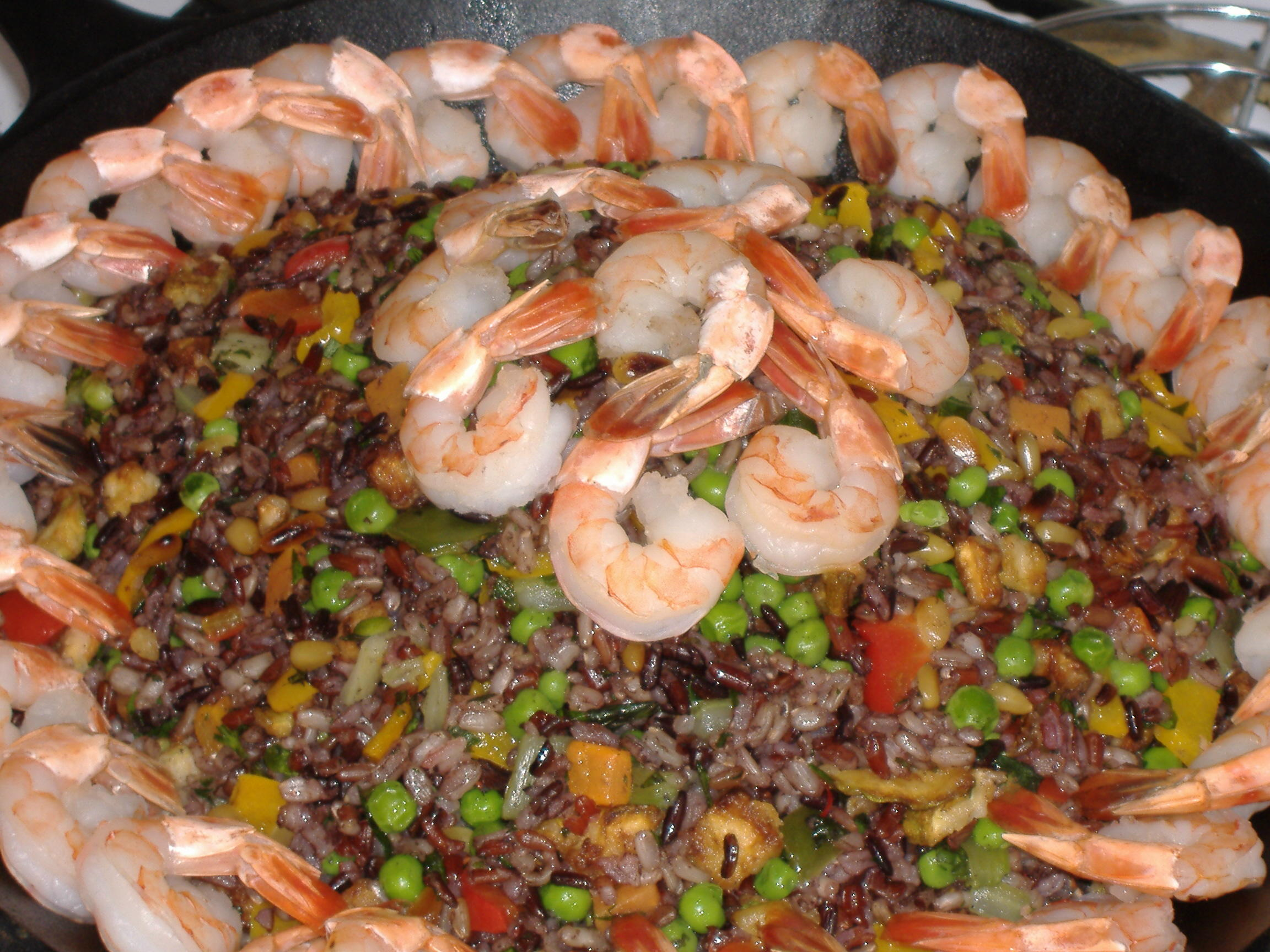 Shrimps on Farro salad.